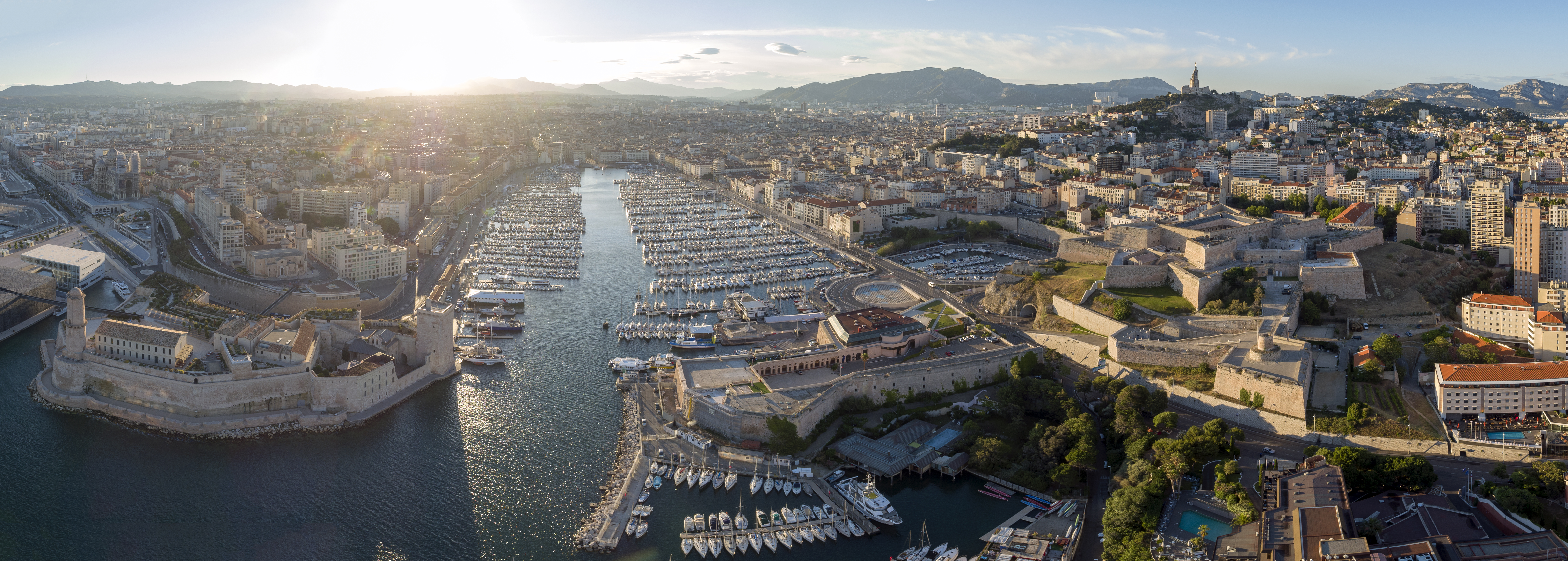 panorama of vieux port marseille